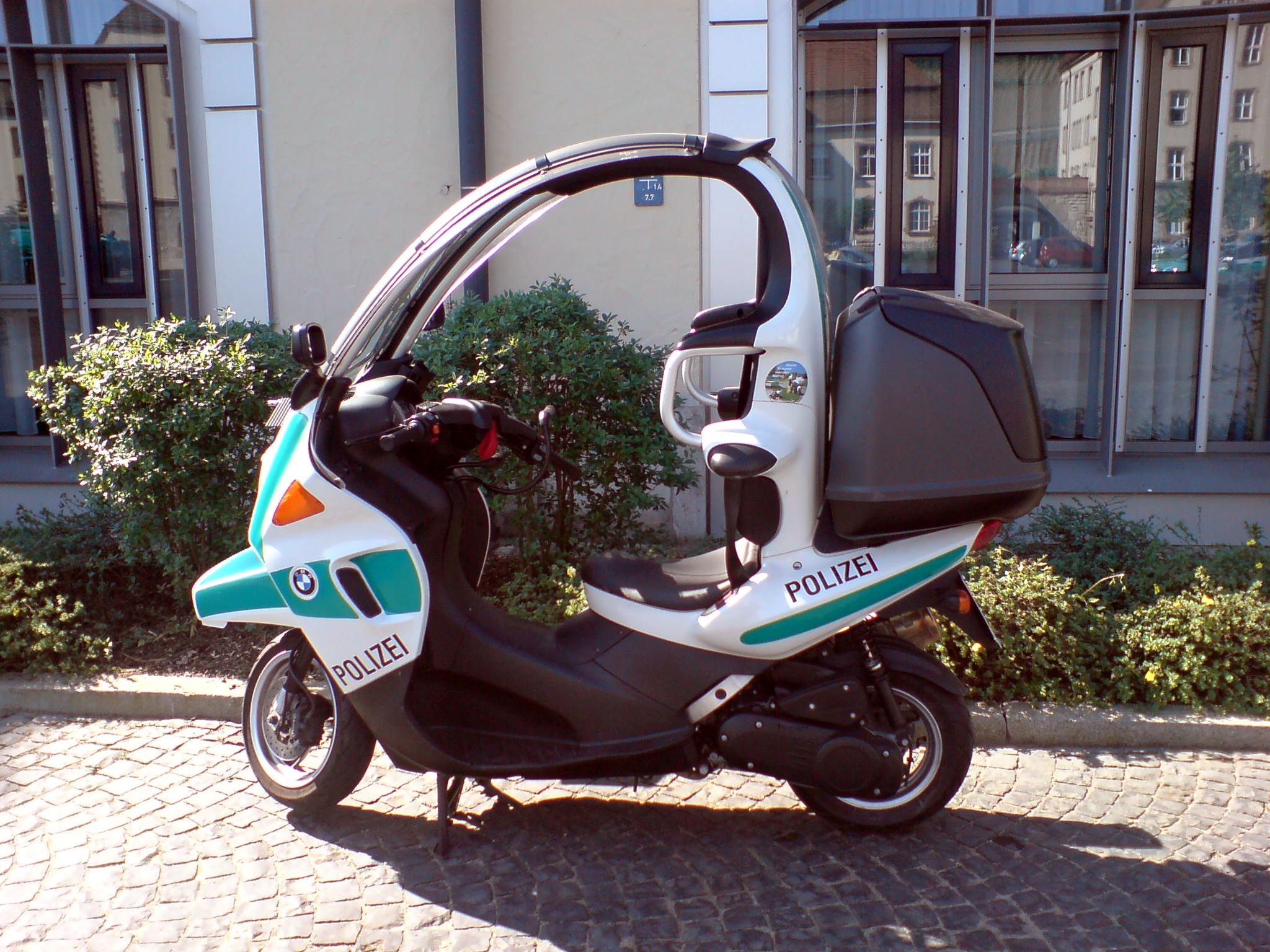 BMW C1 of the Bavarian Police